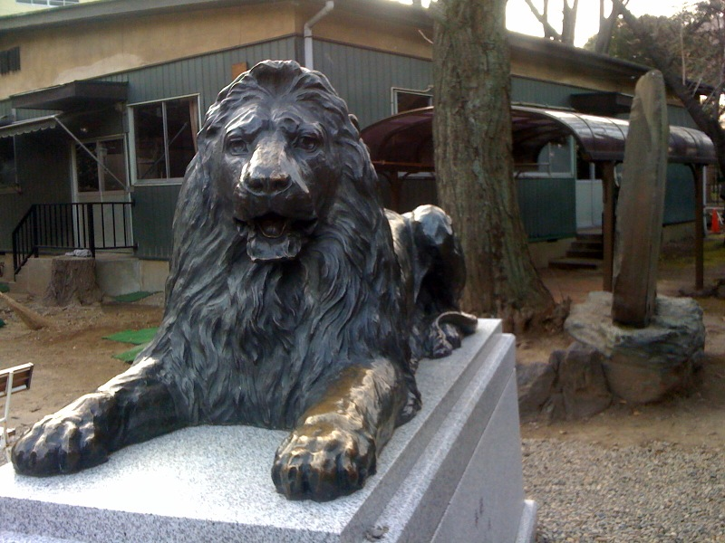 Lion's statue at Mimeguri shrine in Sumida-ku, Tokyo.